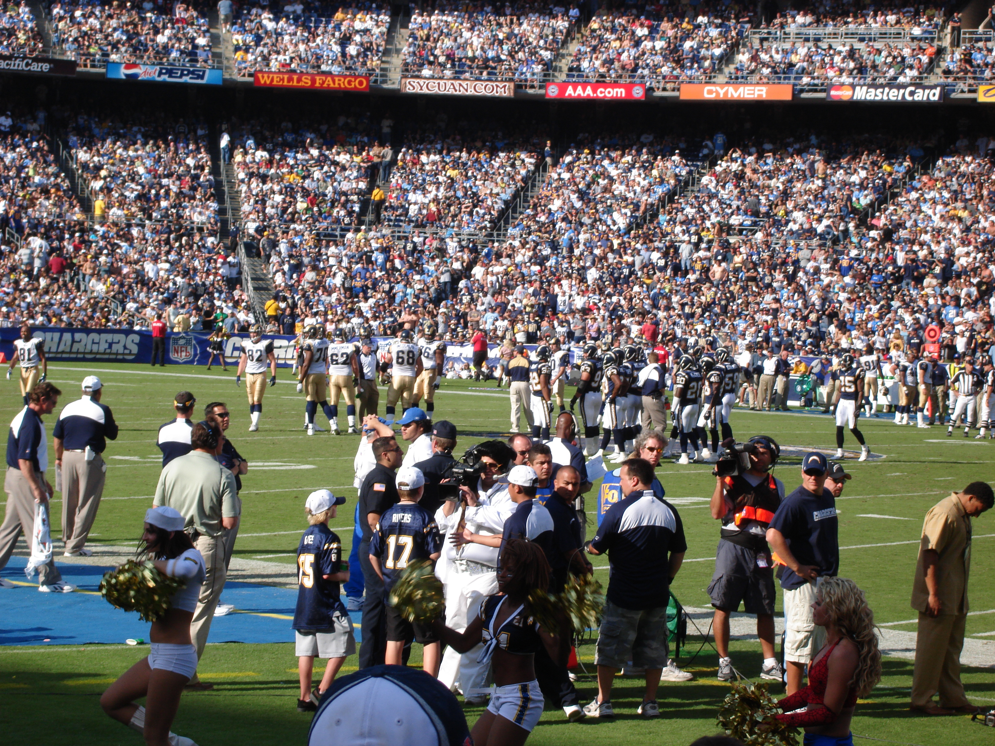 The interior of Qualcomm Stadium during a game between the San Diego Chargers and the St. Louis Rams. Category:Images of San Diego